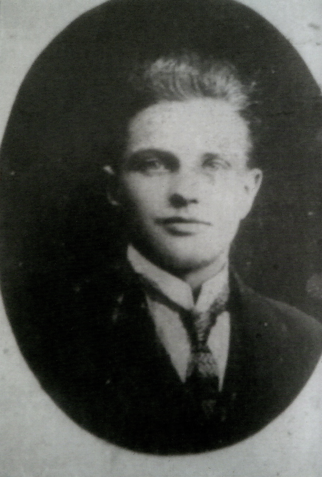 Brigadier Alf Colley. Murdered at Whitehall, Aug 1922